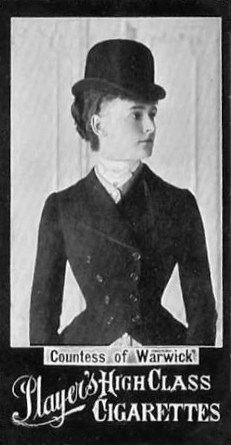 A Player's Cigarettes card depicting Daisy Greville in riding habit, using an Alexander Bassano photo-portrait of 1890. The image was also used in an 1899 article, "Peers and Peeresses in Business", in The Harmsworth Magazine. Frances Evelyn Maynard, "Daisy Greville", Countess of Warwick, (1861-1938), was wife to Francis Greville, Lord Brooke (m.1881). Francis Greville became the 5th Earl of Warwick in 1893, with 'Daisy' becoming countess. Daisy Greville, sole beneficiary of the Maynard fortune, and of Easton Lodge, Little Easton, Essex, was an English courtesan and socialite, later turned champagne socialist.